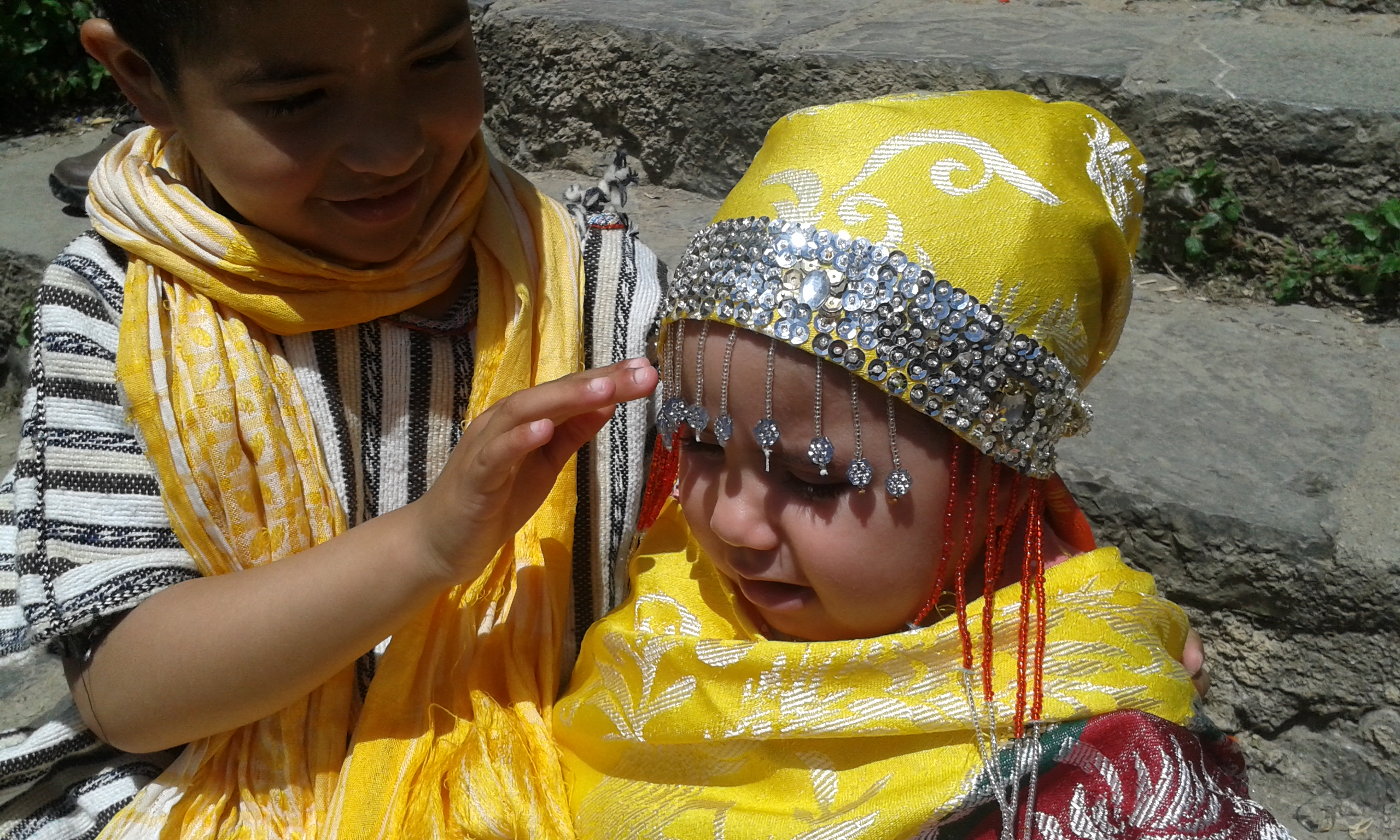 traditional clothes of Chaouen , mode Jbala This is an image of Cultural Fashion or Adornment from Morocco